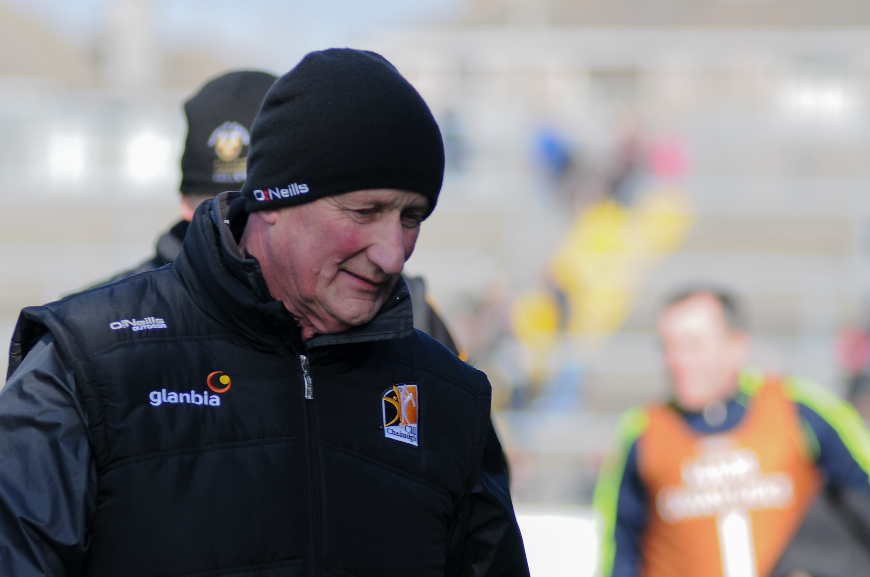 Kilkenny manager Brian Cody after their 2015 NHL game against Galway at Pearse Stadium